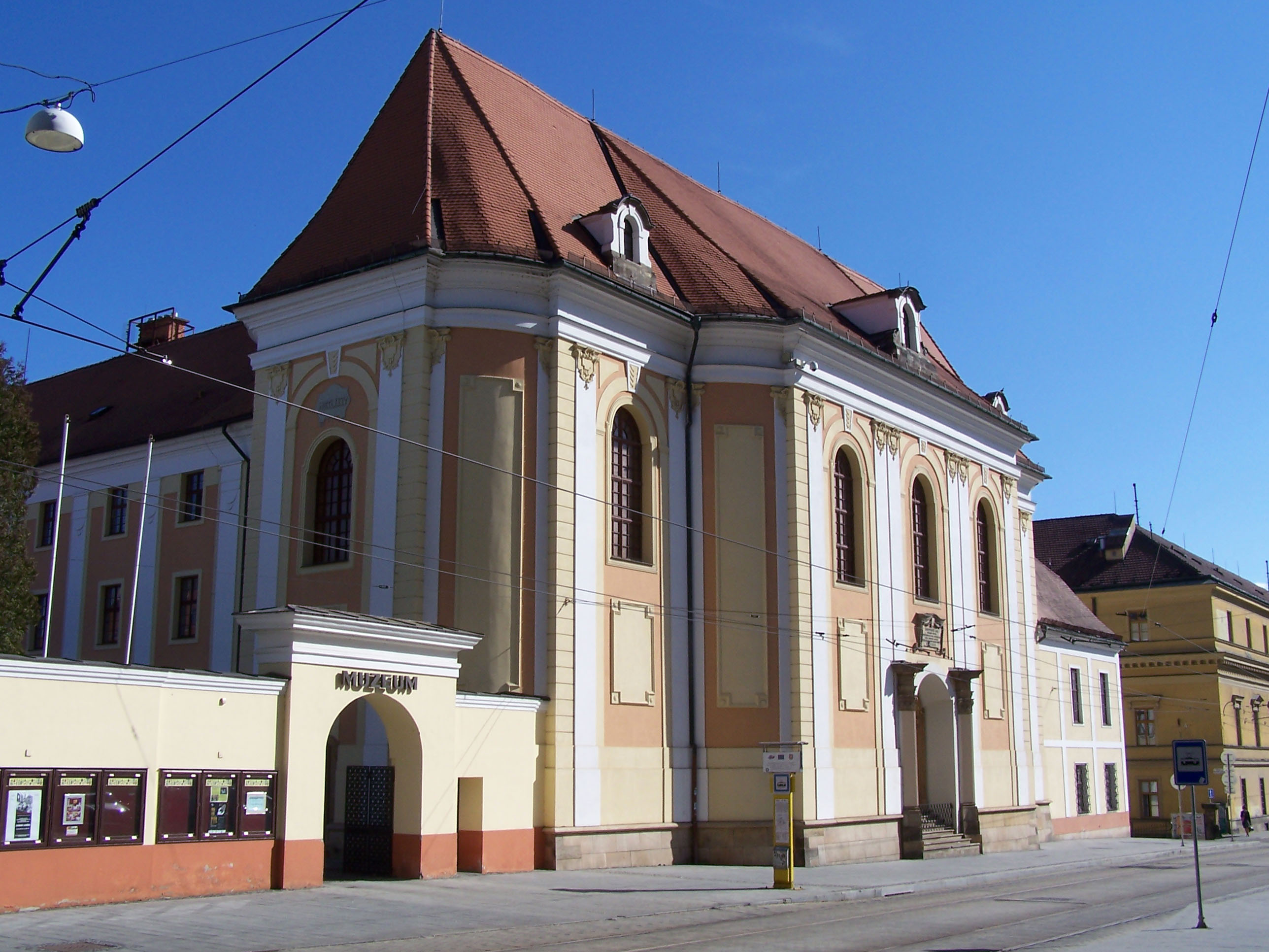 Regional Museum (Vlastivědné muzeum) in Olomouc, Czech Republic